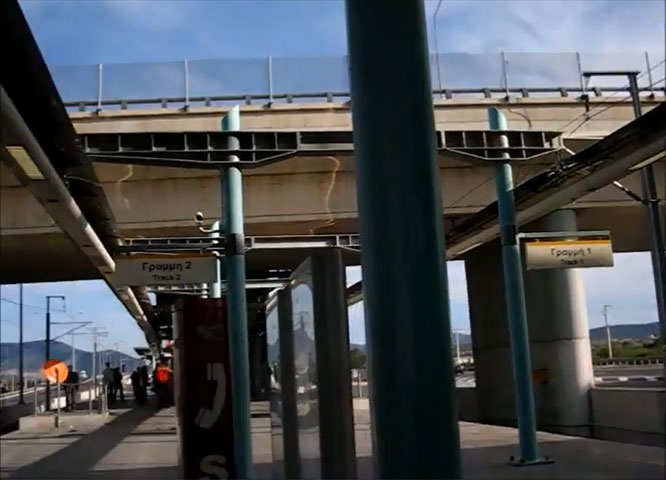 Koropi station, Proastiakos and line 3 of Athens Metro